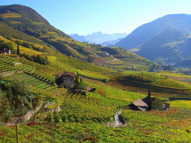 Vineyards St. Magdalena near Bozen with St. Justina and Rosengarten in the background. Left Winery Obermoser, right Untermoserhof. Vineyards in South Tyrol, Italy